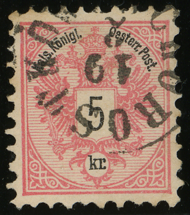 Austria KK 5 kreuzer issue 1883 stamp, cancelled CHOROSTKOW (Galicia, Ukraine)